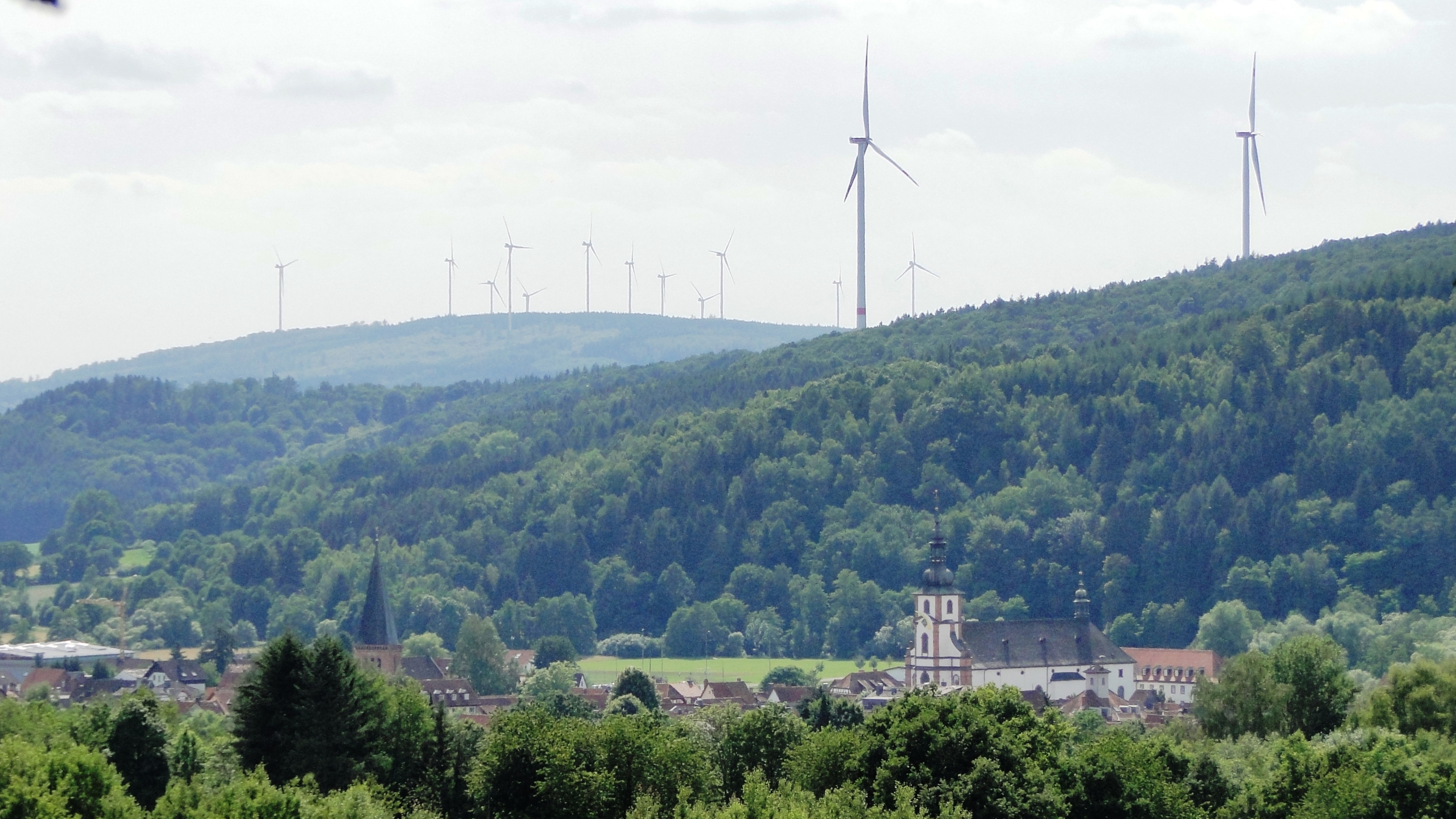 a view of Salmünster, Ortsteil of Bad Soden-Salmünster (Hesse, Germany) from the northwest with the wind farms in the Wächtersbach municipality